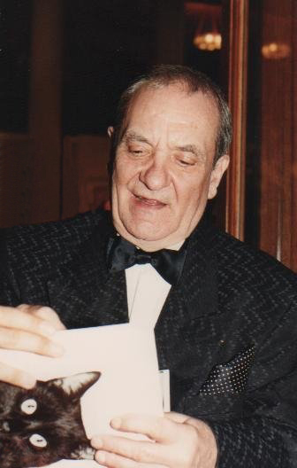 Jean Carmet, French actor, at the César awards ceremony